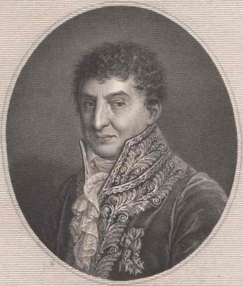 Simone Stratigo (Greek: Συμεών Φίλιππος Στρατηγός, Symeon Filippos Stratigos), (Italian: Simone Filippo Stratico), Croatian: Simun Stratik) ; ca. 1733 – ca. 1824) was a Greek mathematician and an Nautical science expert who studied and lived in 18th and early 19th century Italy.